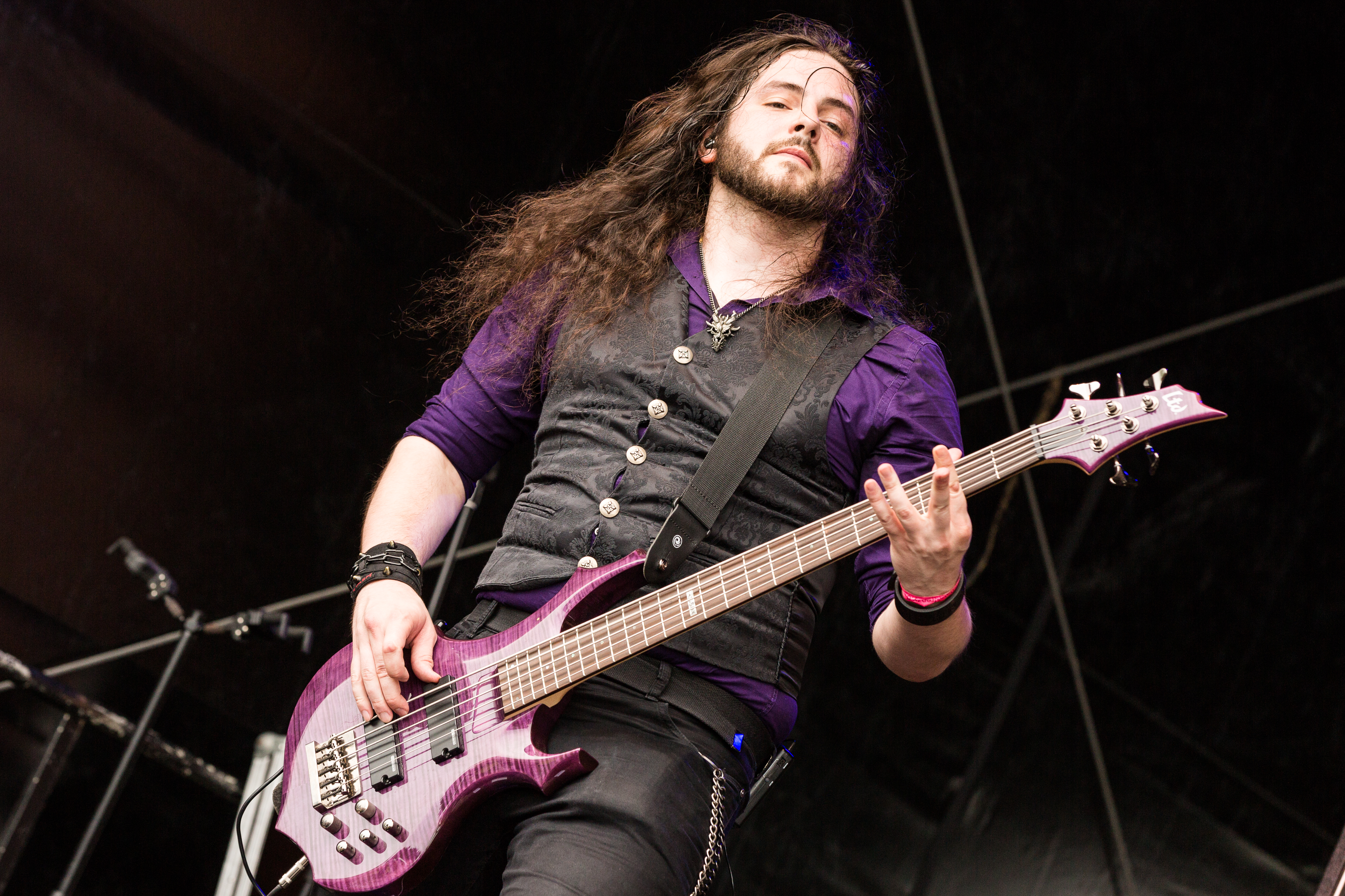 The Austrian symphonic metal band Visions of Atlantis at the Metal Frenzy 2017 in Gardelegen/Germany.